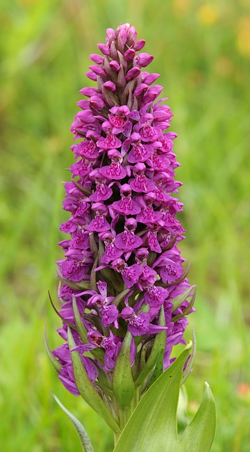 Dactylorhiza purpurella, Dublin / Ireland